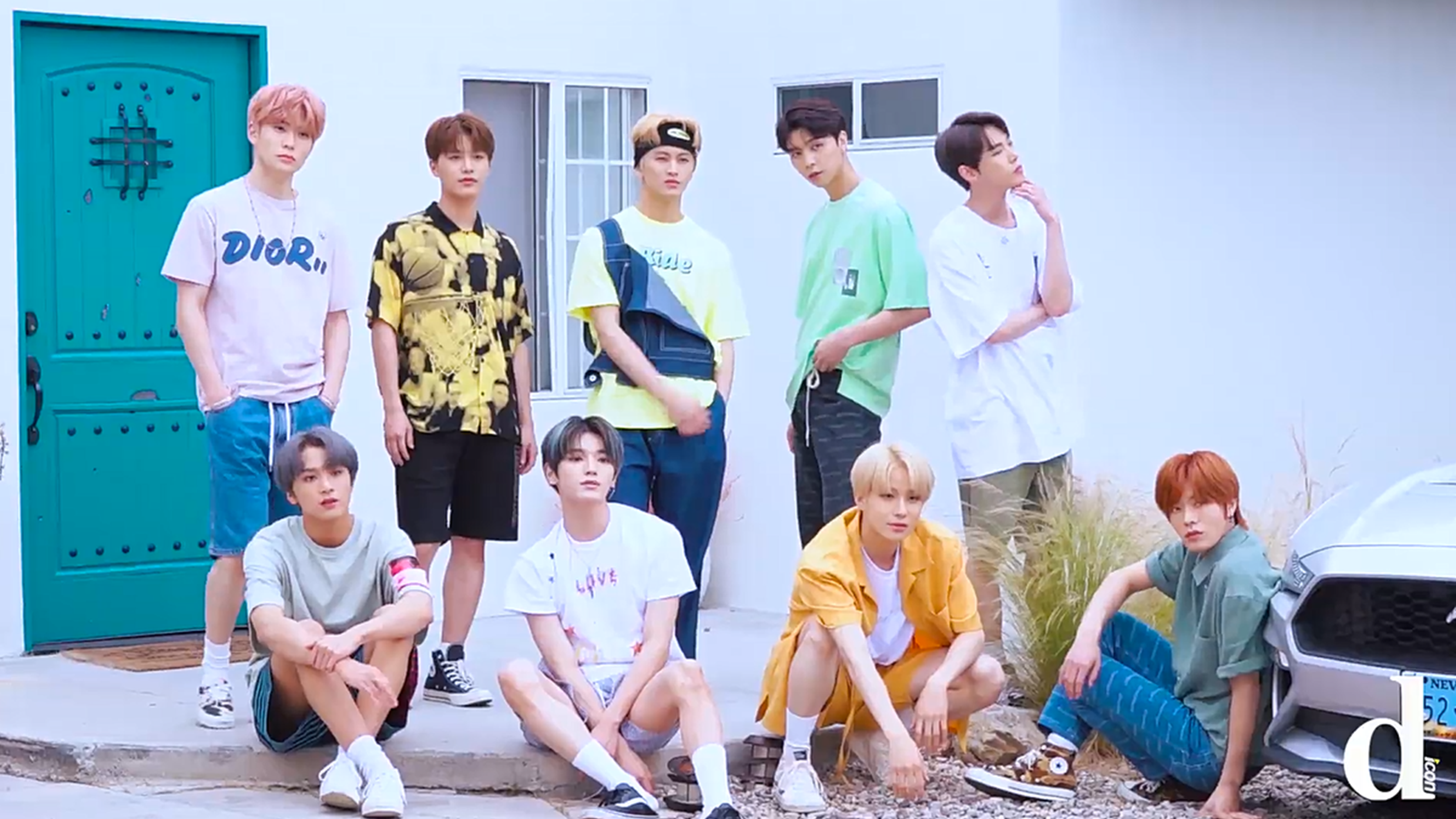 NCT 127 in photoshoot for D-icon Magazine, released on August 5, 2019.